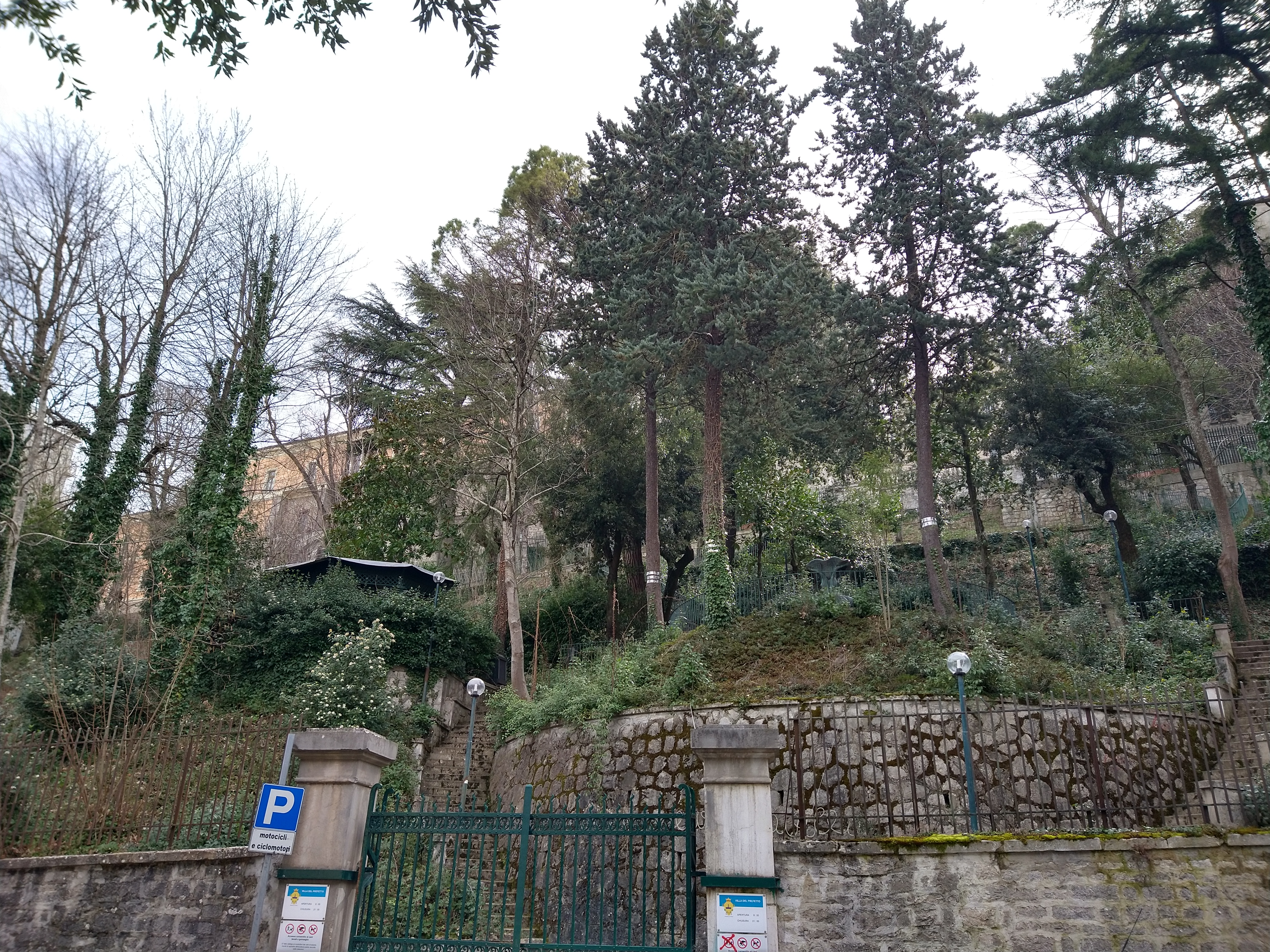 External view of Villa del Prefetto gardens, Potenza, Italy